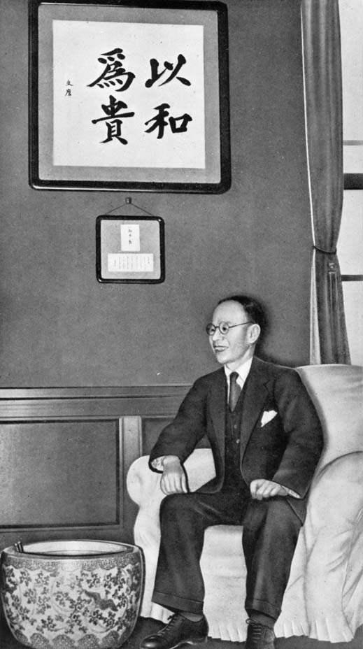 Motoji Shibusawa in presidental room of the Nagoya Imperial University (1943).